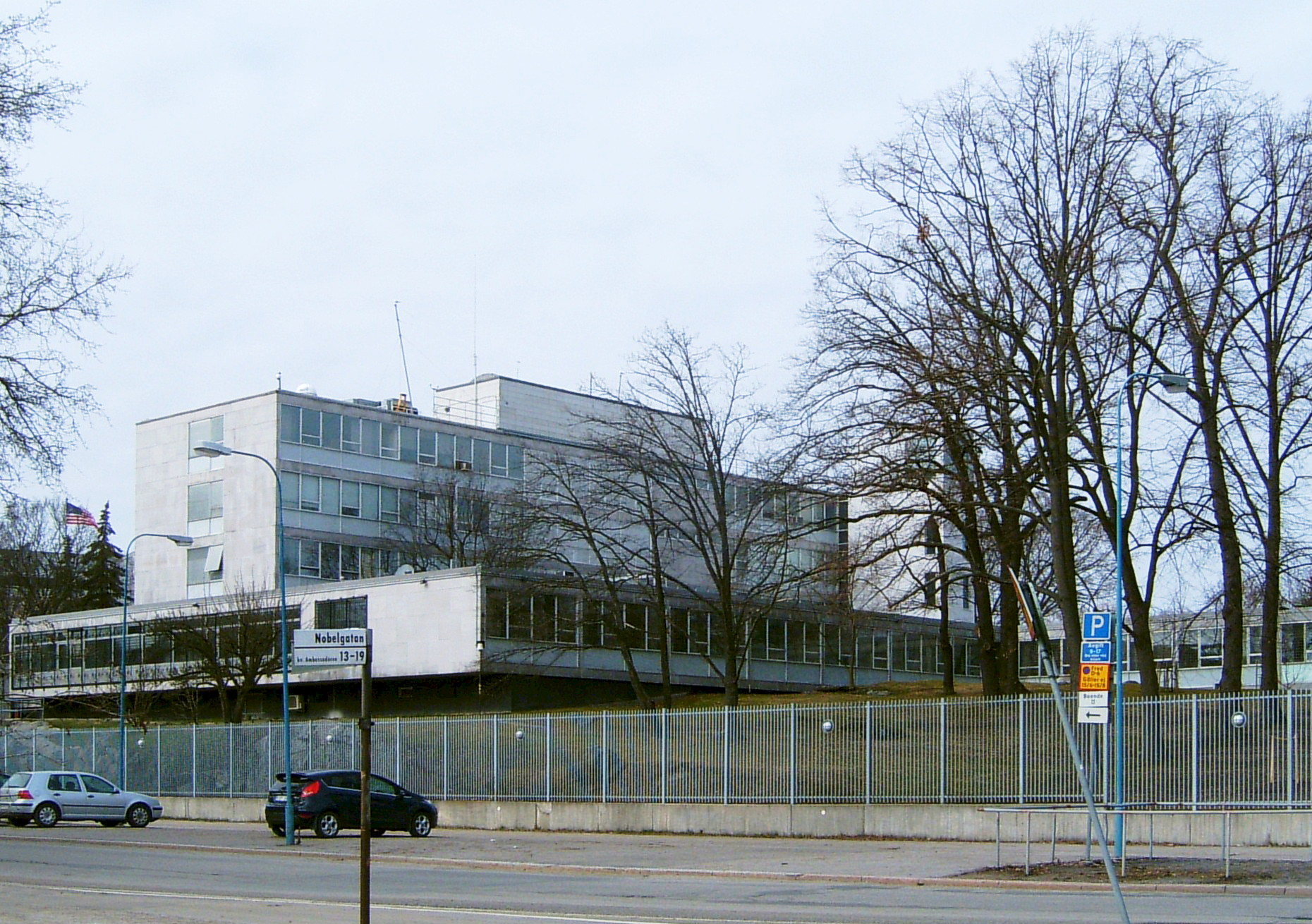 Embassy of the United States in Diplomatstaden, Stockholm